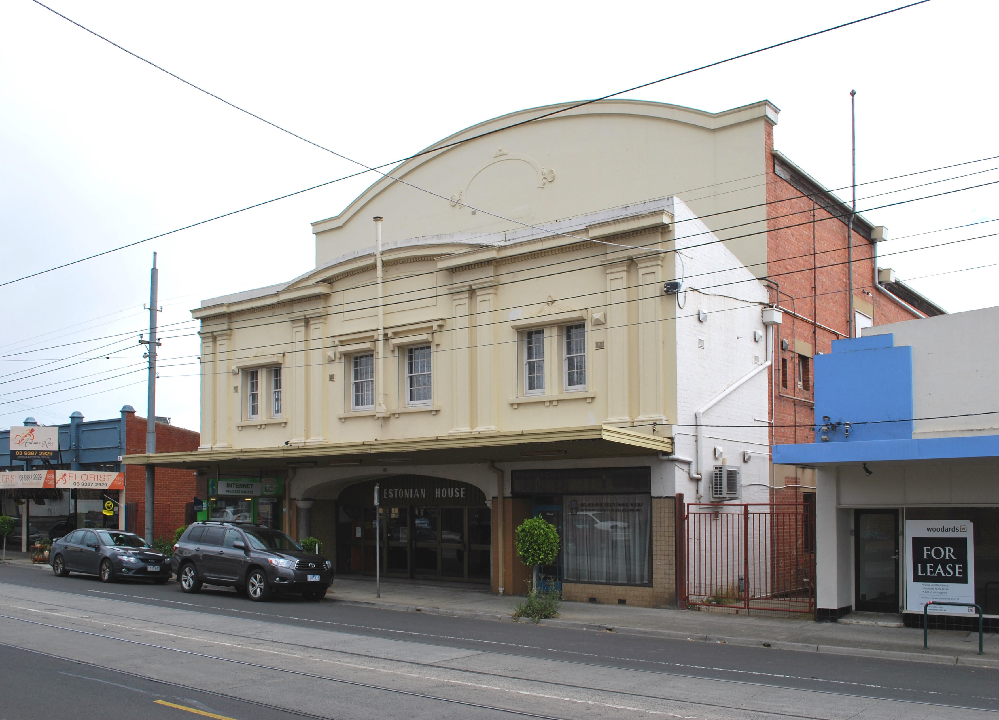 Estonian House at Brunswick West, Victoria